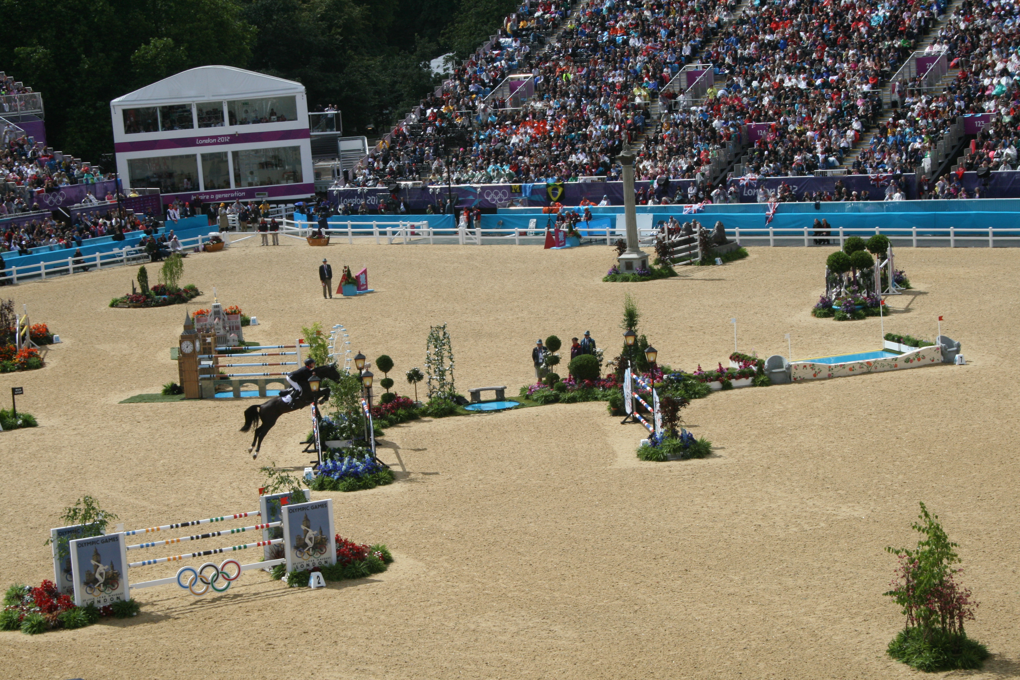 Impression of the 2012 Olympic Show jumping competition